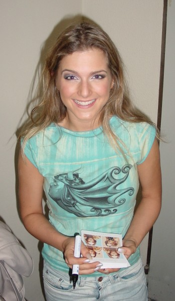 Jeanette Biedermann backstage in Mannhein, May 2002